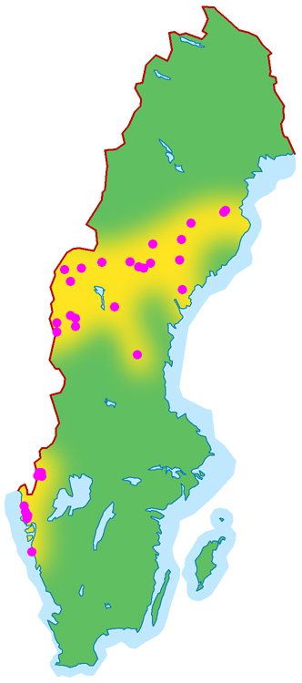 Distribution map of pictographs in Sweden.